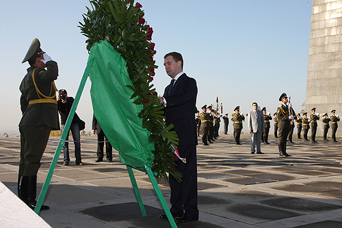 YEREVAN, ARMENIA. Laying a wreath at the Monument to the Victims of the Armenian Genocide.